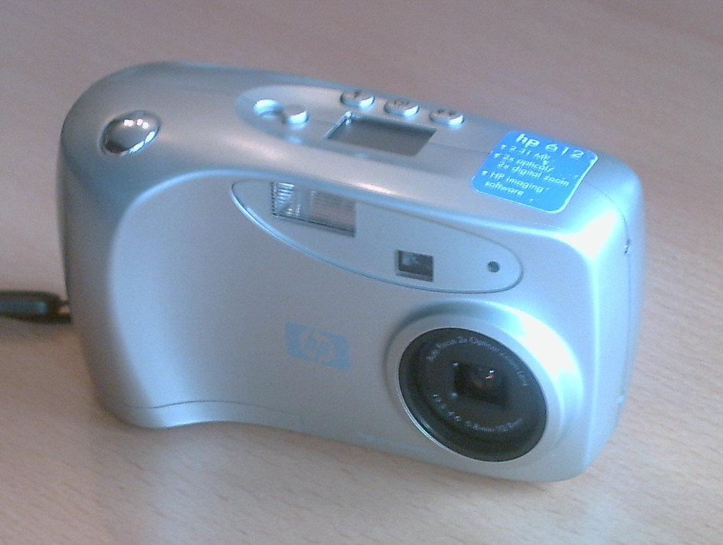 HP PhotoSmart 612 Digital camera